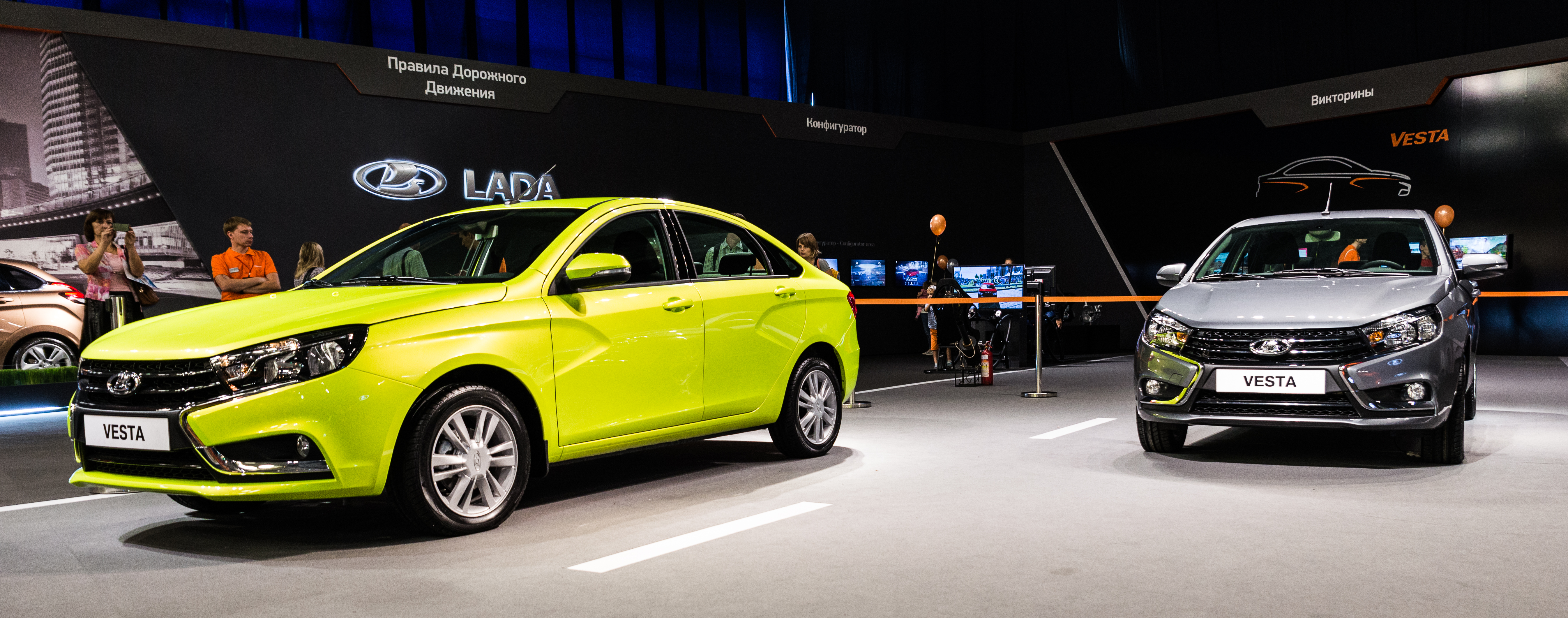 LADA Vesta at MOTOREXPO 2015